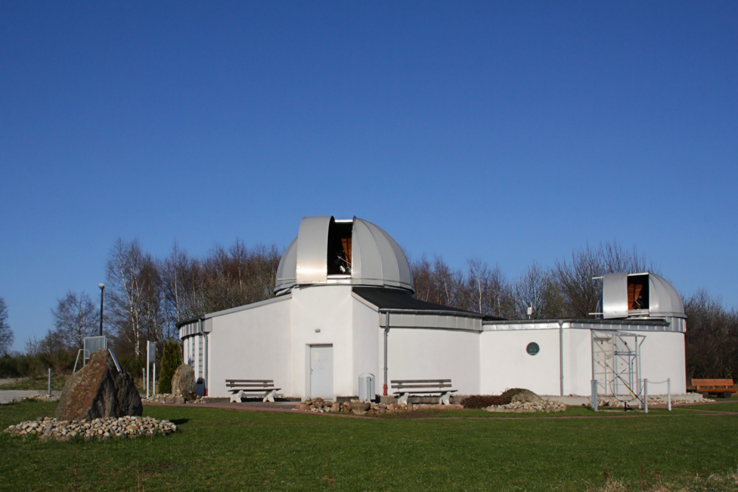 Peterberg Observatory, Germany